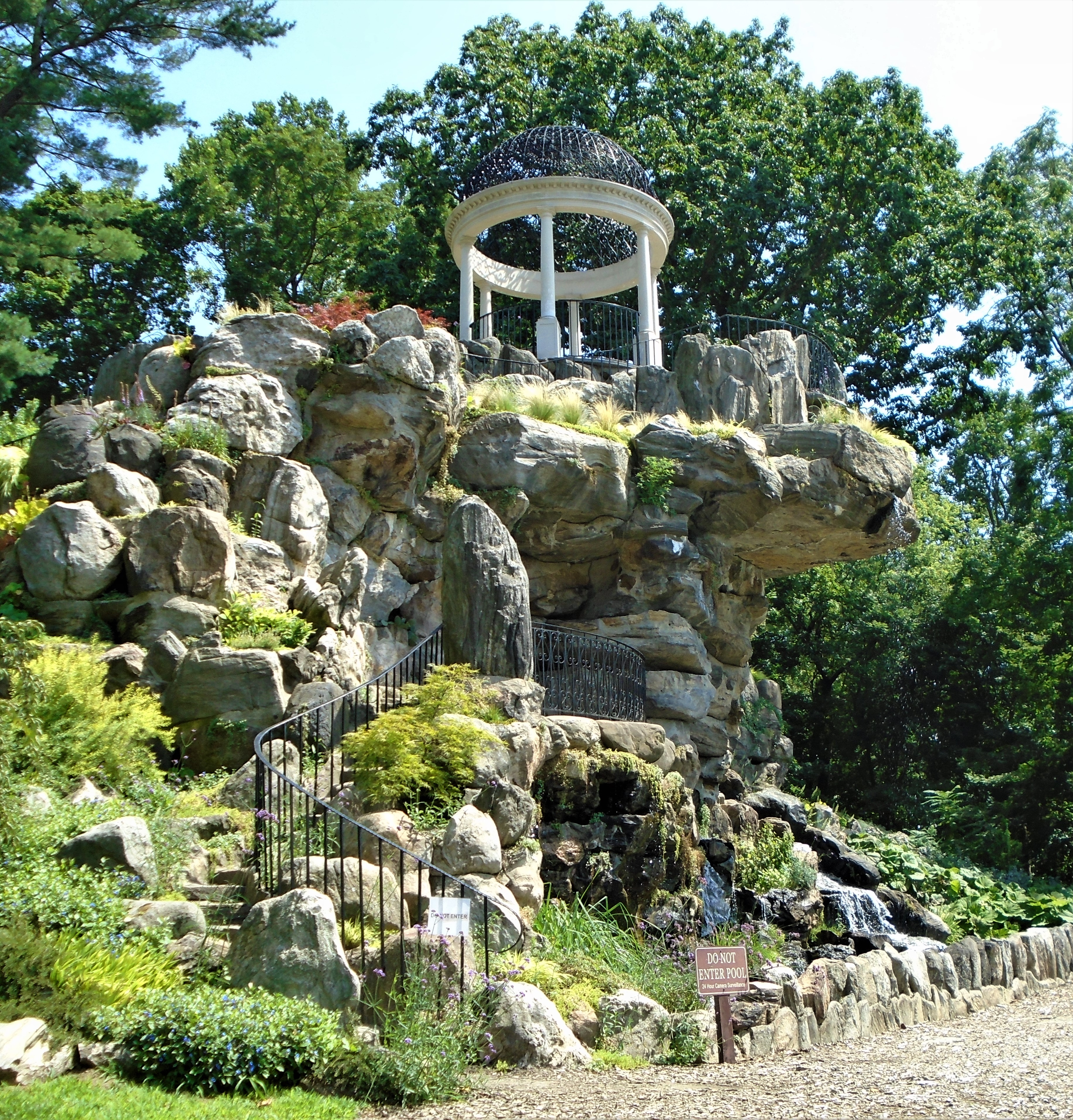 Untermyer Park and Gardens is a historic 43-acre (17 ha) city public park, located in Yonkers, New York in Westchester County, just north of New York City. The park is a remnant of Samuel J. Untermyer's 150-acre (61 ha) estate "Greystone". The park features a Walled Garden inspired by ancient IndoPersian Paradise gardens, a small Grecian-style open-air amphitheater with two facing sphynxes supported by tall Ionic columns, a rock-and-water feature called the "The Temple of Love", as well as a long staircase which leads to an Overlook with views of the Hudson River and the Palisades. The gardens were developed beginning in 1916 and were designed by architect and landscape designer William W. Bosworth. At their peak, they were considered to be among the finest in the United States. The park and gardens were added to the National Register of Historic Places in 1974. The Temple of Love is a cantilevered rocky fantasy designed by a Genoese stone mason Carlo Davite, with a round temple folly on top. In Untermyer's time it was surrounded by an extensive rock garden with terraced beds. Many of the rocks are hollowed out in order to be used as planters.